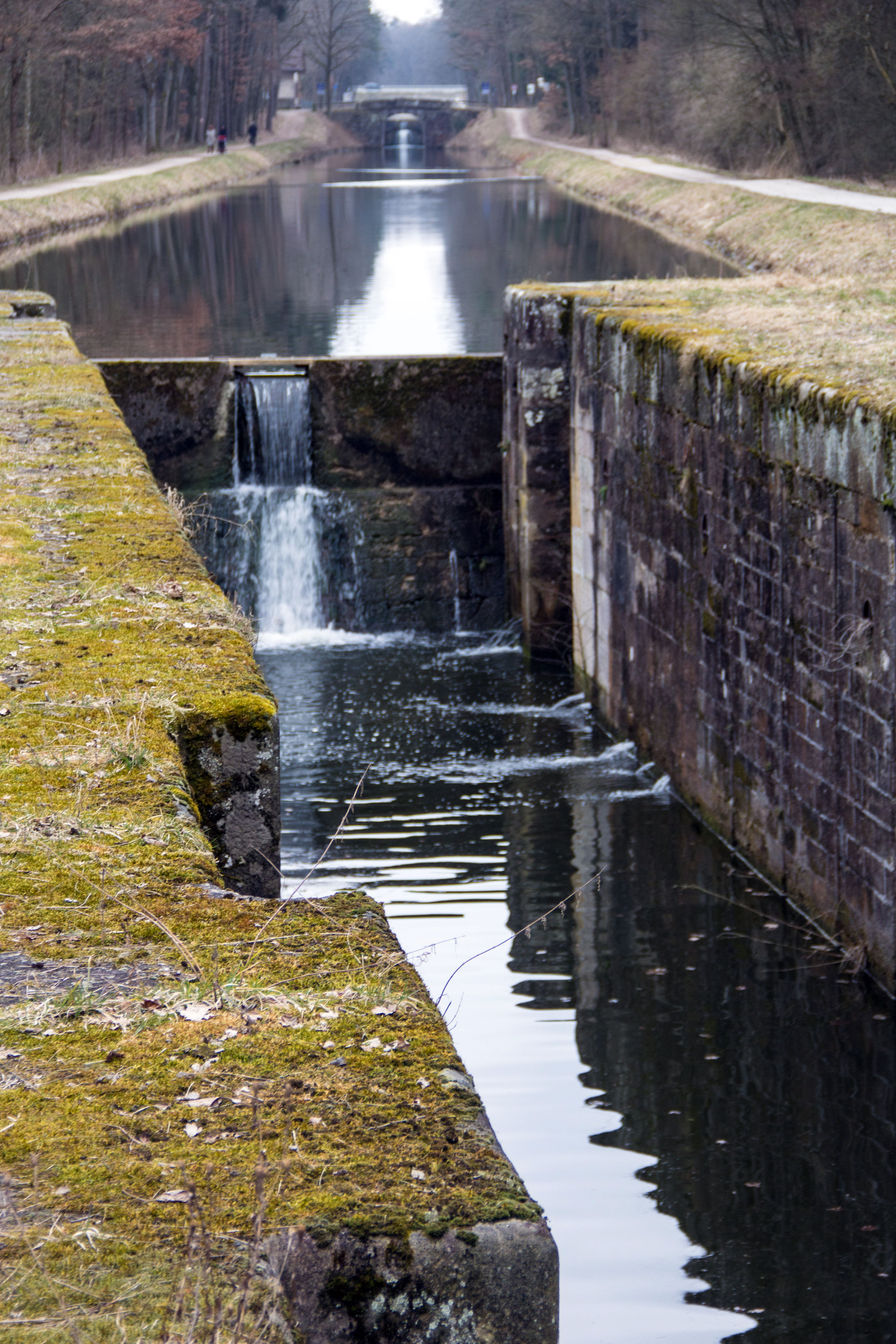 Schleuse 65, Kornburg, Worzeldorf